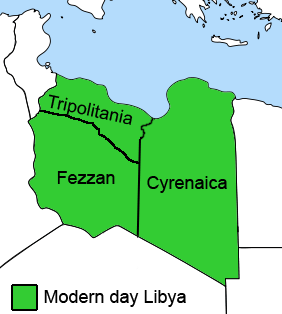 The Ottoman Turks conquered the country in the mid-16th century, and the three States or "Wilayat" of Tripolitania, Cyrenaica and Fezzan (which make up Libya) remained part of their empire with the exception of the virtual autonomy of the Karamanlis. The Karamanlis ruled from 1711 until 1835 mainly in Tripolitania, but had influence in Cyrenaica and Fezzan as well by the mid 18th century.